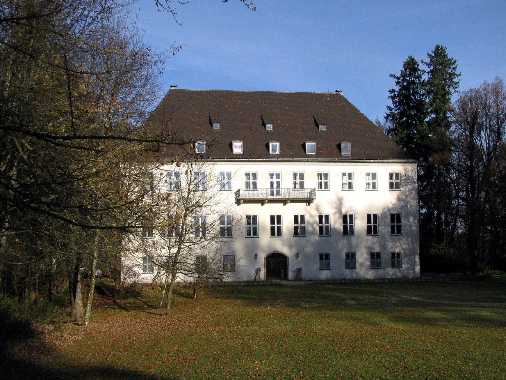 Castle of Wallenburg near Miesbach in Upper Bavaria